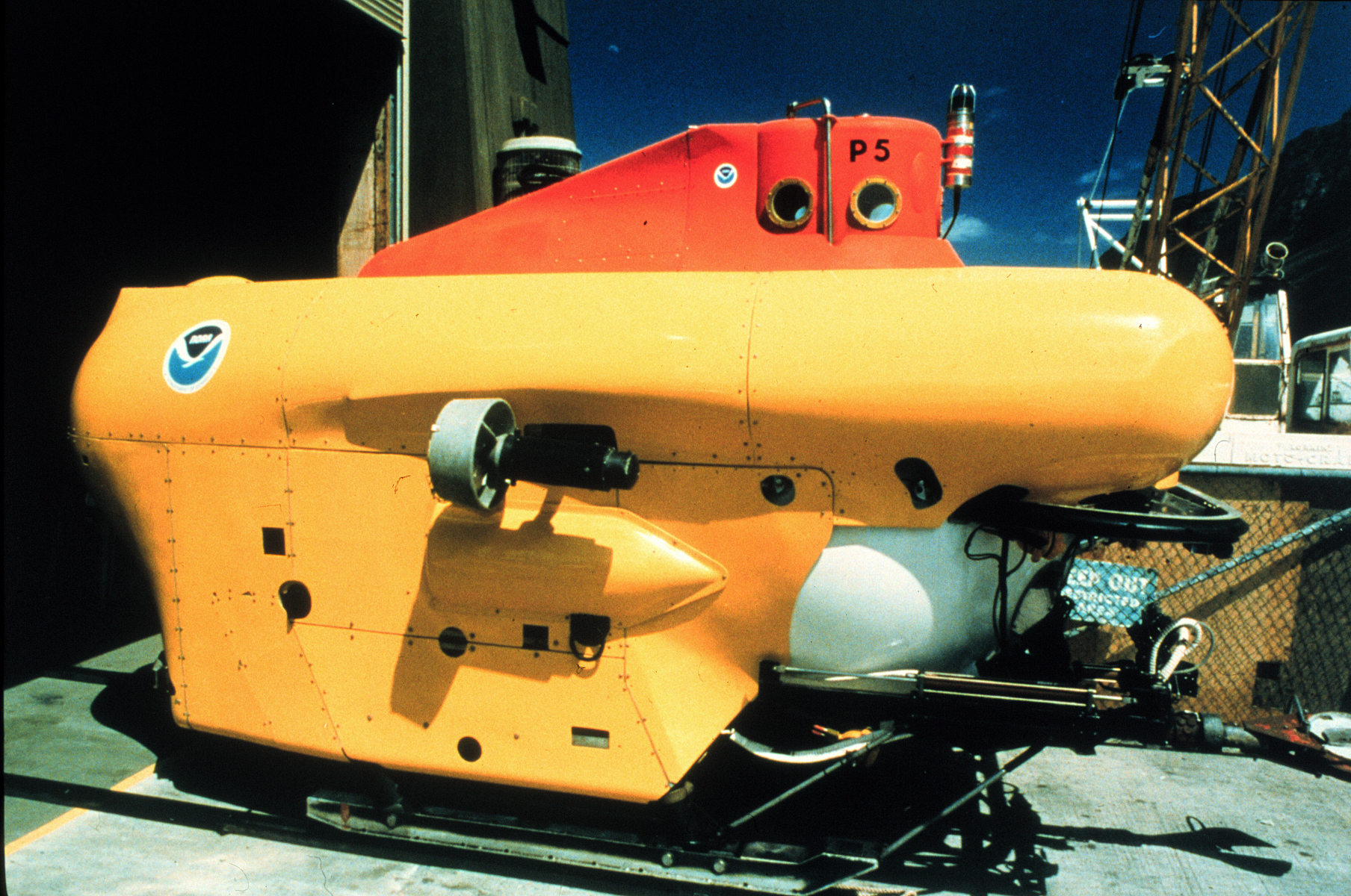 Caption:PISCES V operated by NURP's Hawaii center dives to 2000 m. Image ID: nur07527, Voyage To Inner Space - Exploring the Seas With NOAA Collection Location: Hawaii